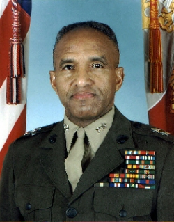 Maj. Gen. Arnold Fields